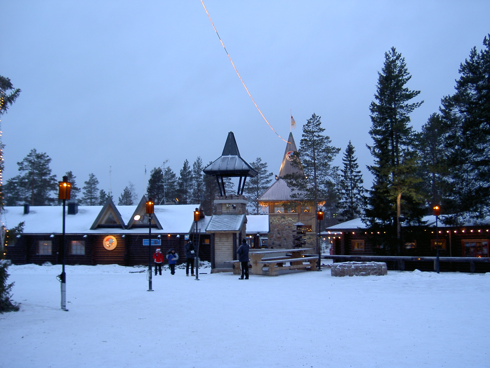 Santa Claus village in Rovaniemen maalaiskunta, Finland